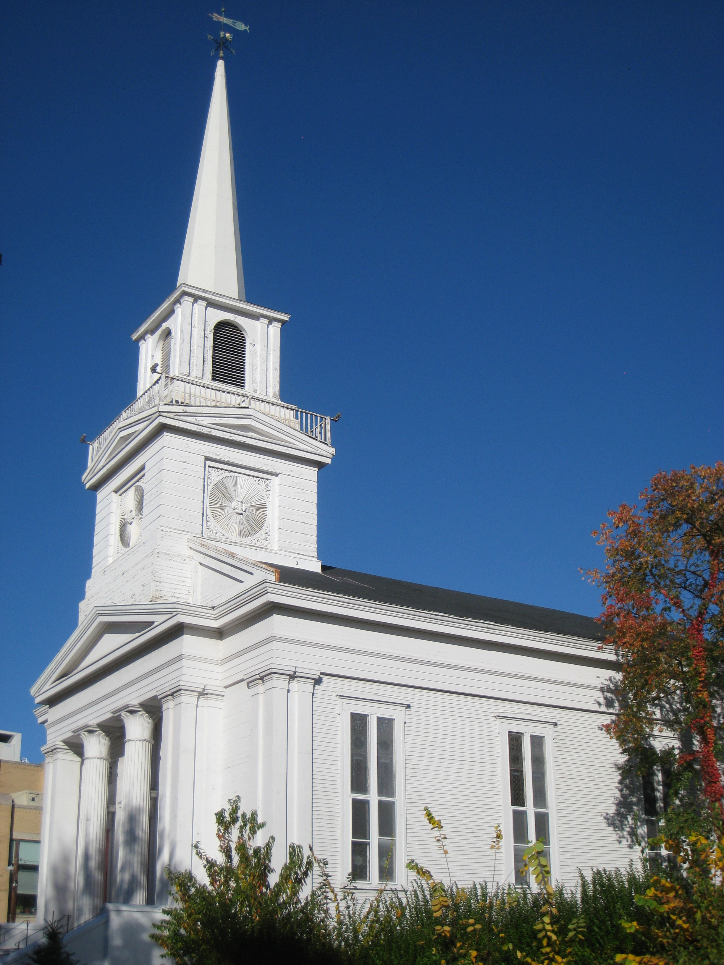 Prospect Hall, Lesley University, Cambridge, Massachusetts, USA. Originally built for the Old Cambridge Baptist Church in 1845, by local architect Isaac Melvin, and sold to the North Avenue Congregational Society in 1866 when it was renamed the North Avenue Congregational Church. In 1867 it was moved up Massachusetts Avenue to its current location. Sold to Lesley University in 2006.